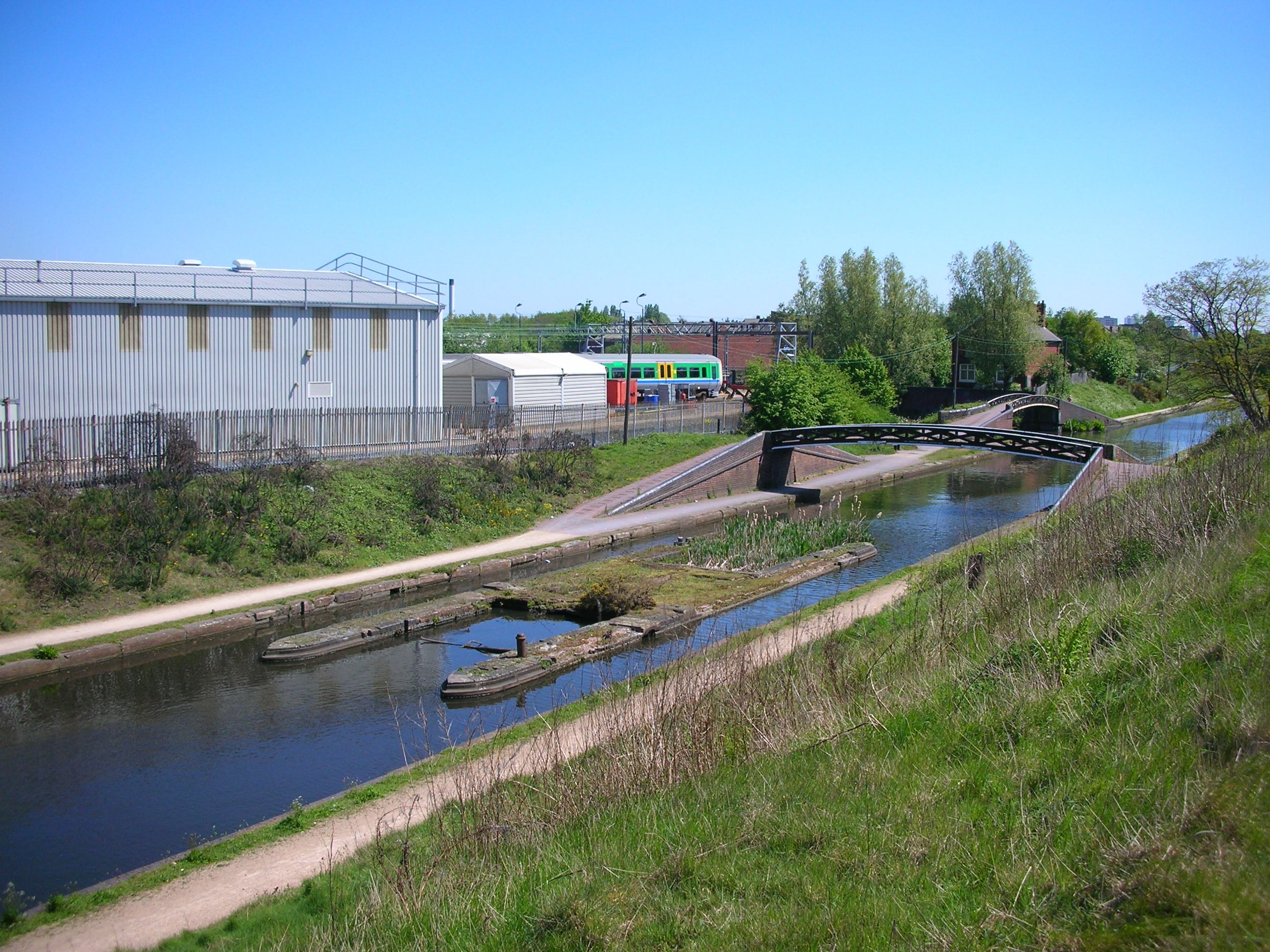 The derelict toll island in the, originally busy, double towpathed, Birmingham New Main Line Canal near Winson Green Junction, just outside the City of Birmingham boundary, England. A photograph in (Birmingham's Canals, Ray Shill, 1999, 2002, ISBN 0-7509-2077-7) shows an octagonal toll building with a plank across one channel for access by staff and also the artificial embankment (from where this photograph was taken) whose sole purpose was to carry the feeder channel from Rotton Park Reservoir to the Engine Arm at the higher Wolverhampton Level. The wide iron roving bridge (made at Horseley Ironworks) allows a towing horse to cross the Main Line and pass under the smaller roving bridge and then enter the Soho Branch (part of James Brindley's Old Main Line canal). Photographed by me 1 May 2007. Oosoom 20:09, 19 May 2007 (UTC)